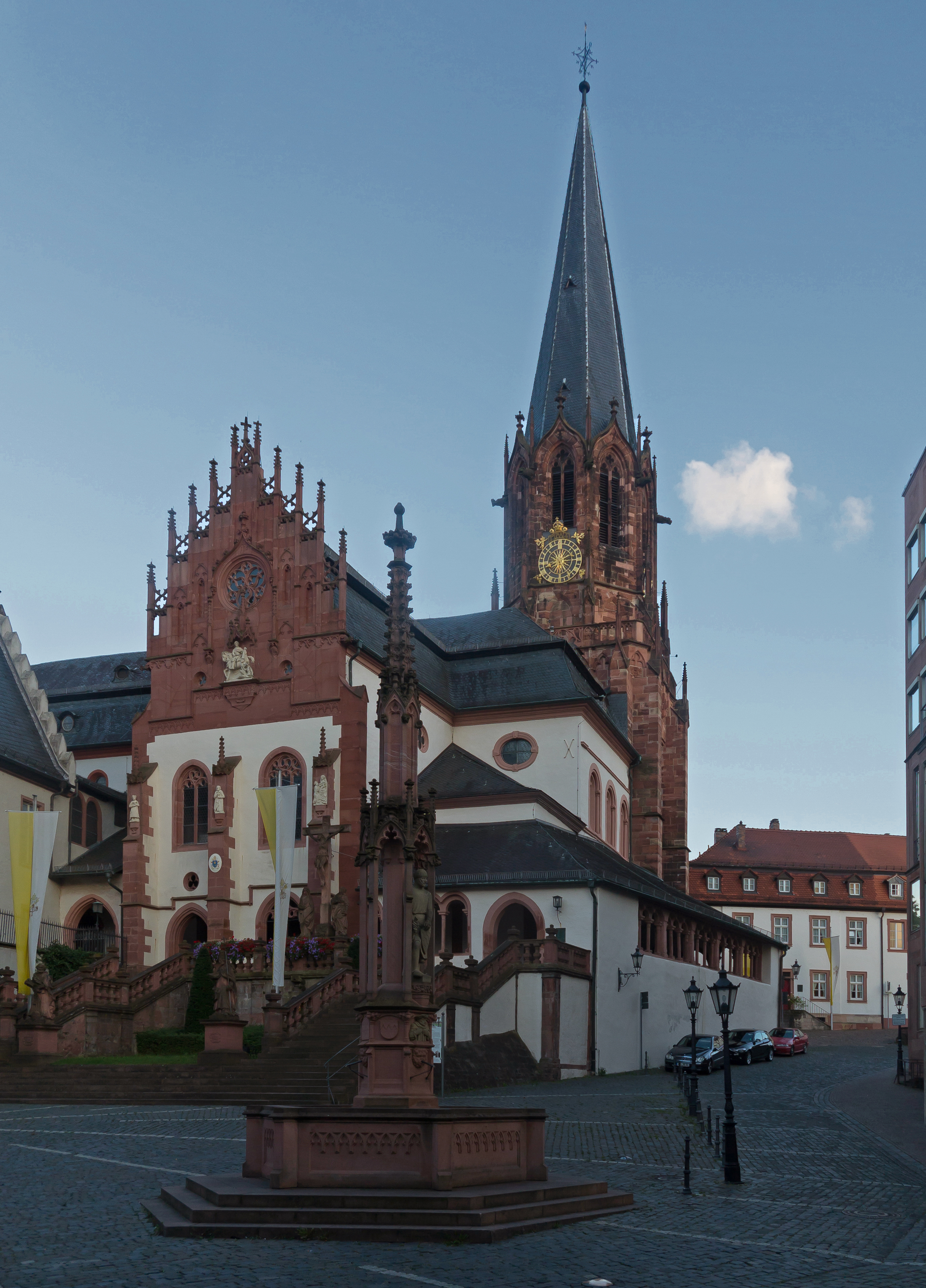 Aschaffenburg, church: die Sankt Peter und Alexander KircheThis is a photograph of an architectural monument.